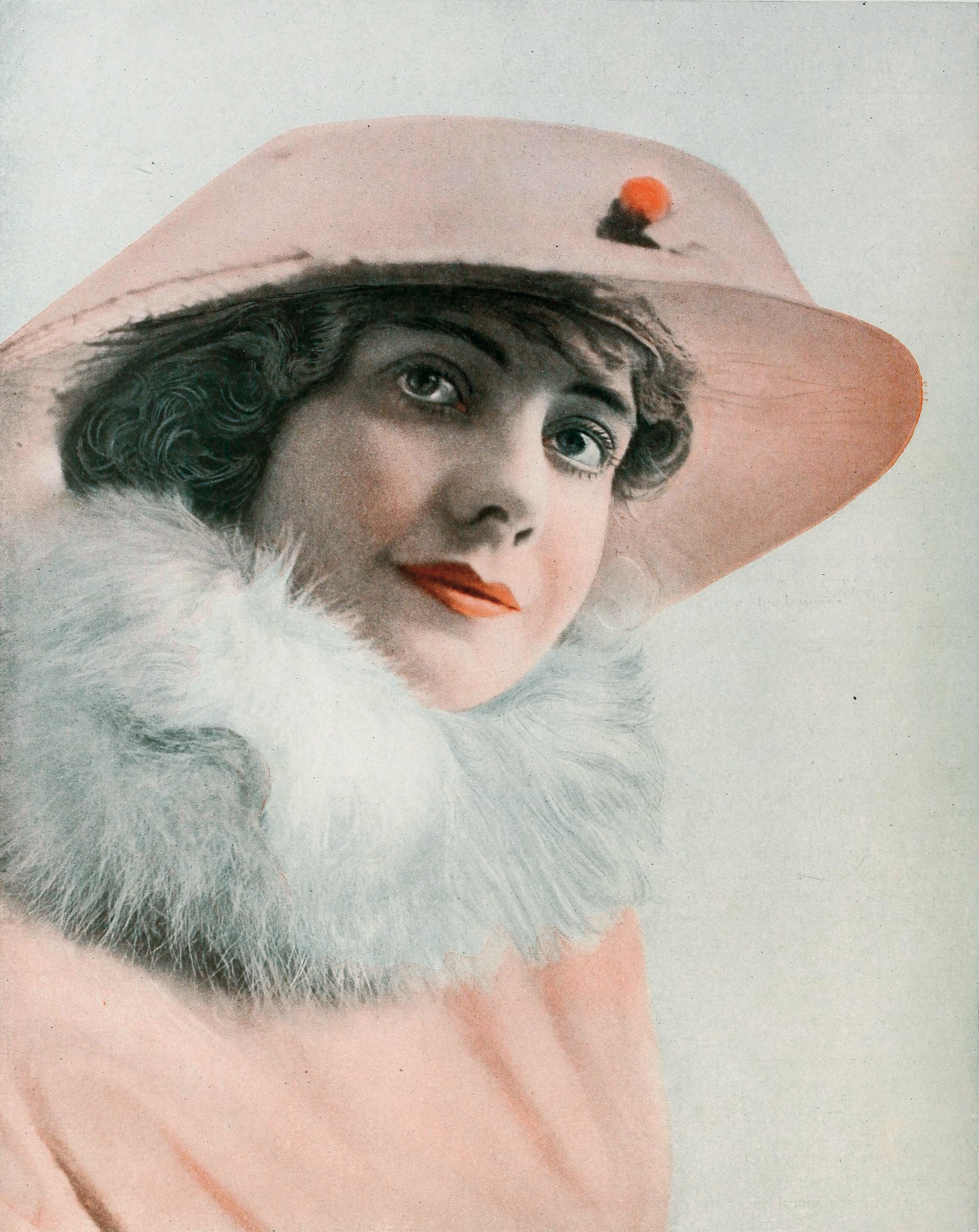 Myrtle Stedman The Photo-Play Journal, August 1916